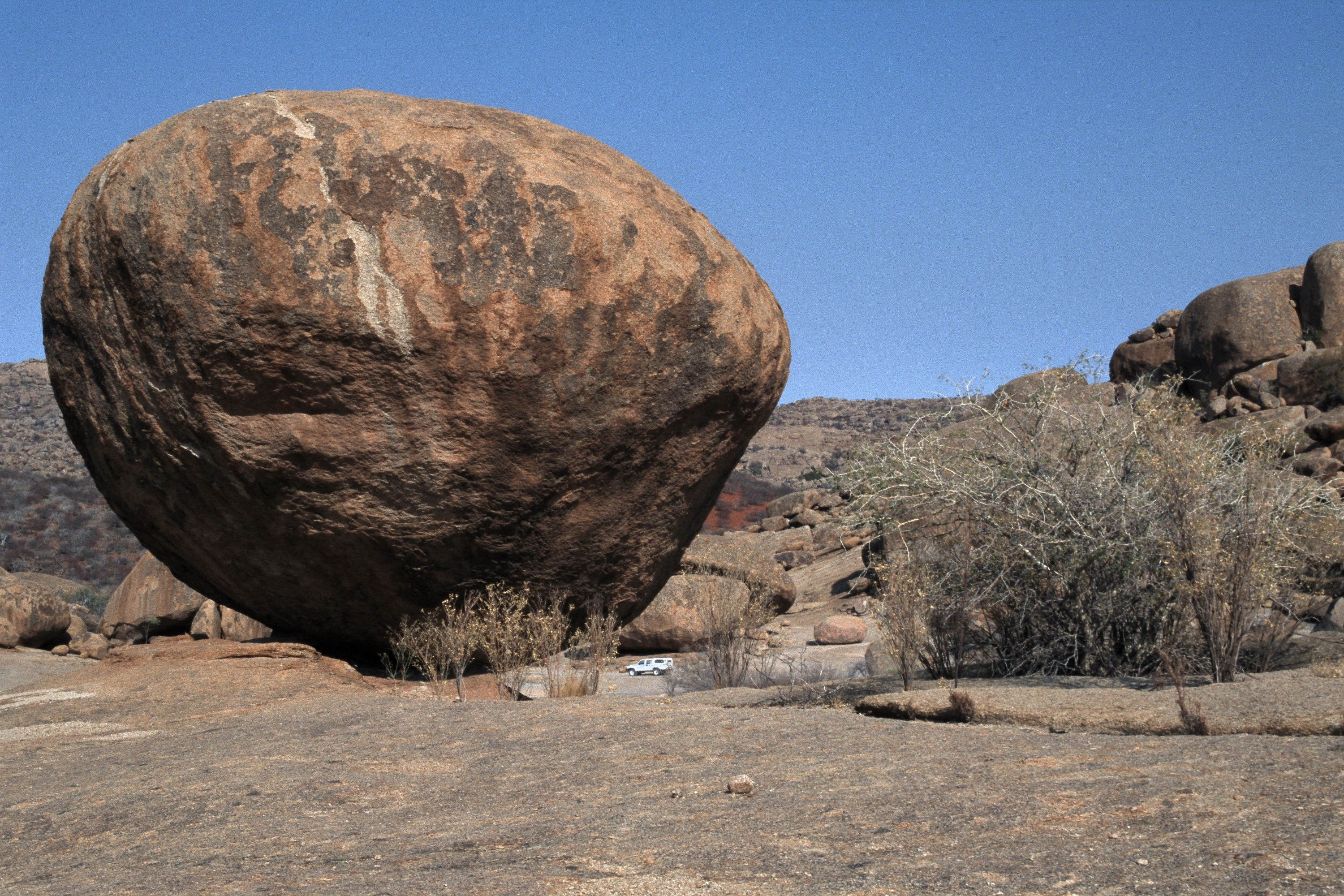 Bull´s Party, Erongo. What is bigger?